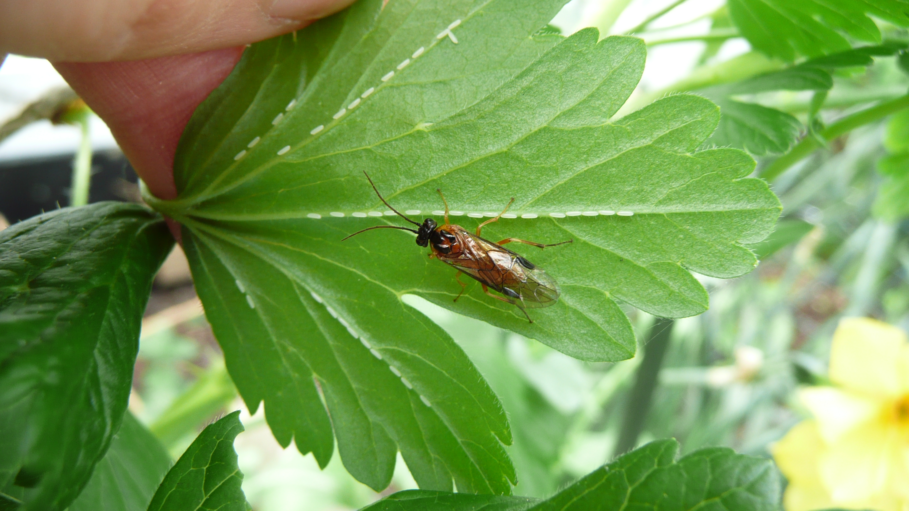 As file